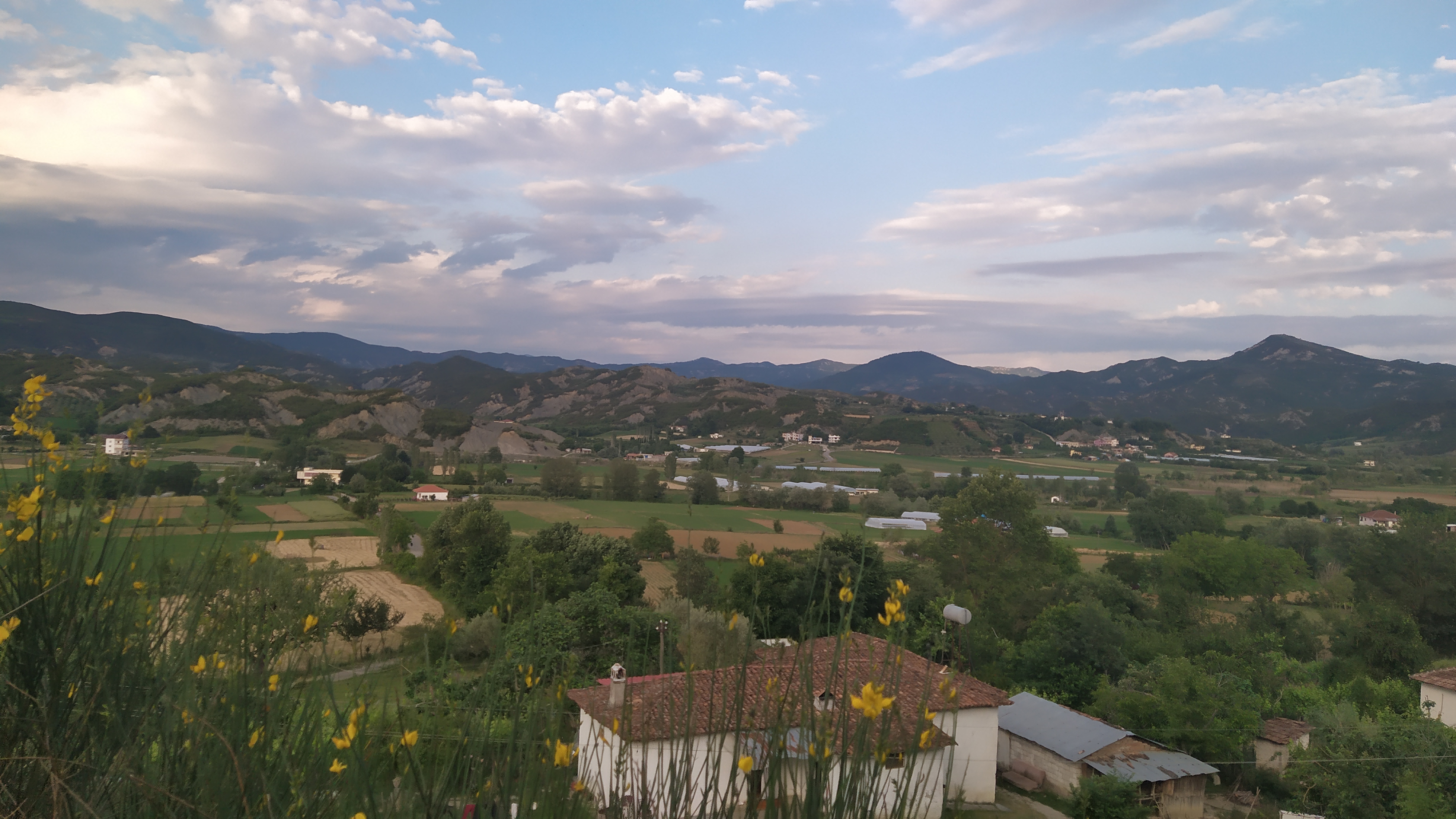 Village of Mustafakocaj